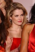 Amanda Hearst, 2004